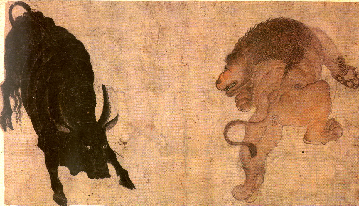 Picture by XV century Central Asian artist Mohammed Siyah Qalem.